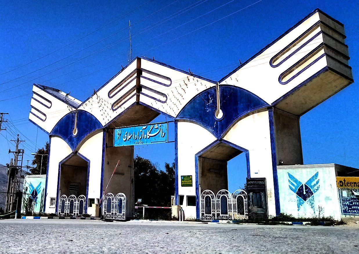 مجتبی بهره‌دار